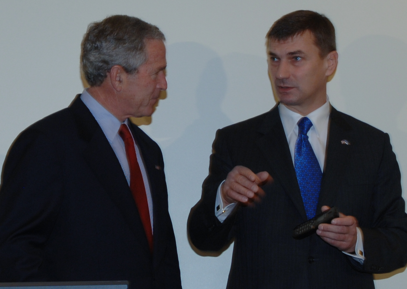 Estonian Prime Minister Andrus Ansip introducing Estonia's e-government to American President George W. Bush.